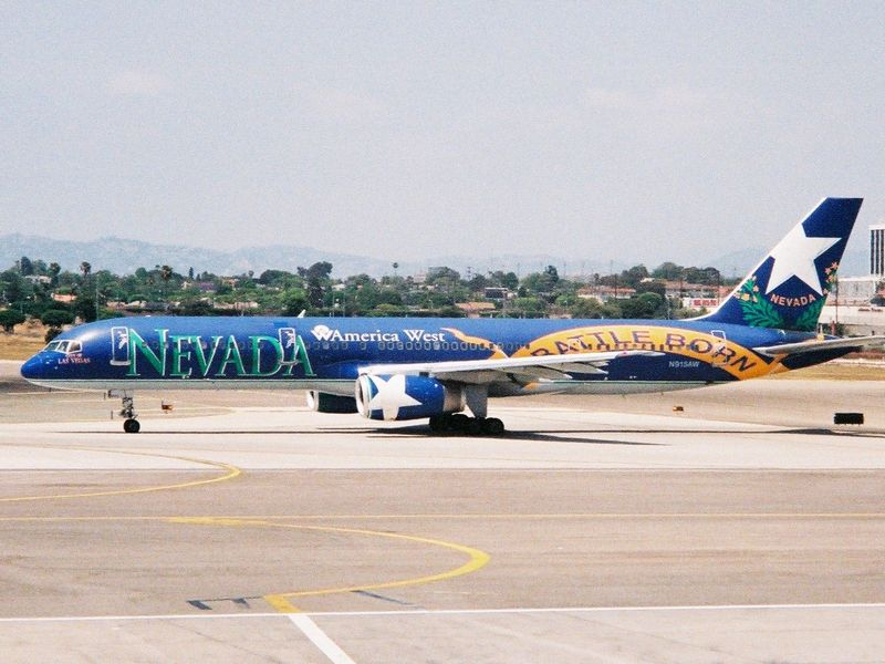 America West Airlines B757-225(N915AW)"Nevada Battleborn" at LAX